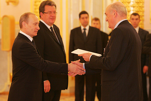 THE KREMLIN, MOSCOW. The Ambassador of the Sovereign Military Order of Malta, Gianfranco Facco Bonetti, presents his credentials to the President of Russia.